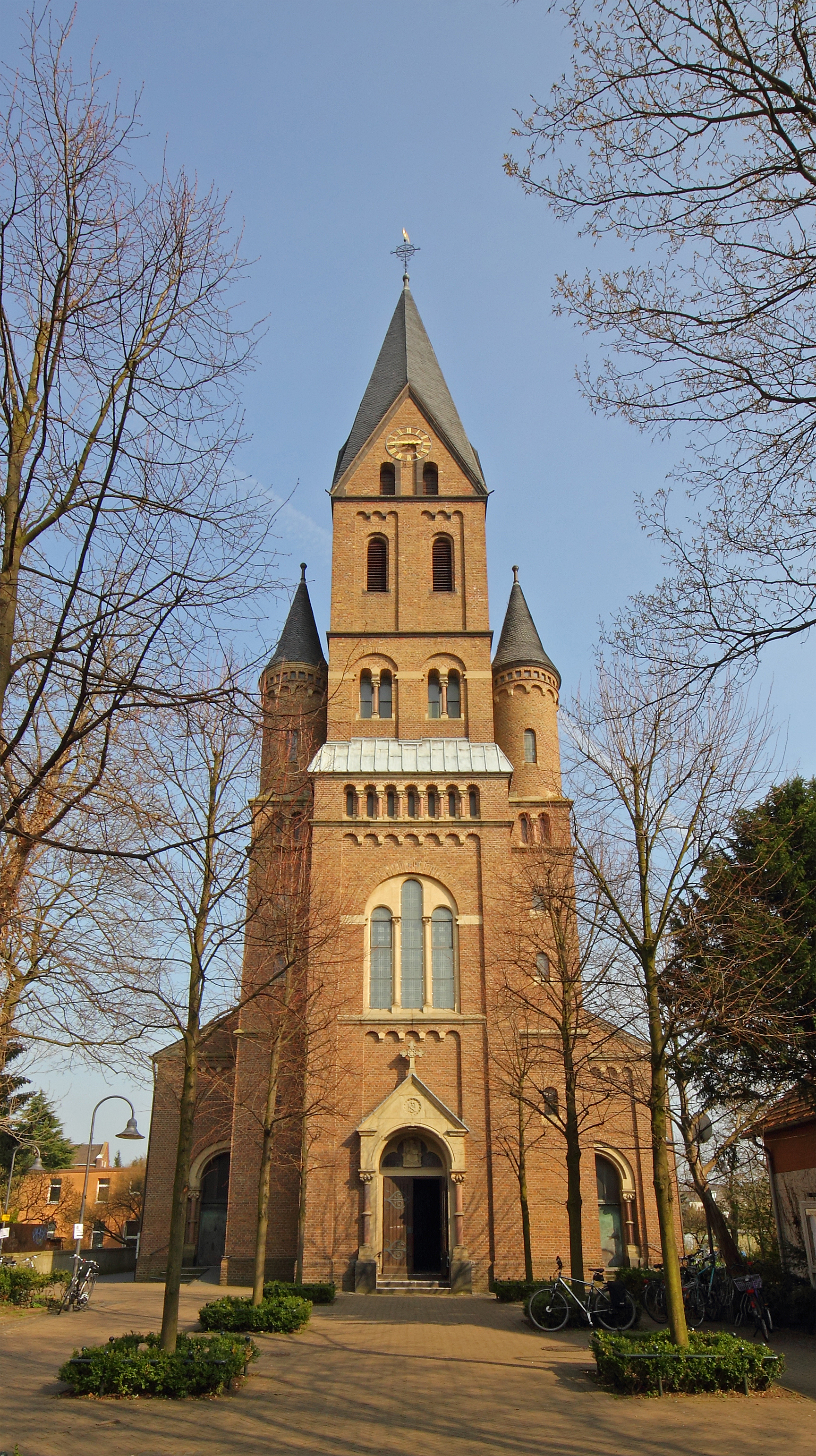 Cologne-Niehl, New church of St. Catherine